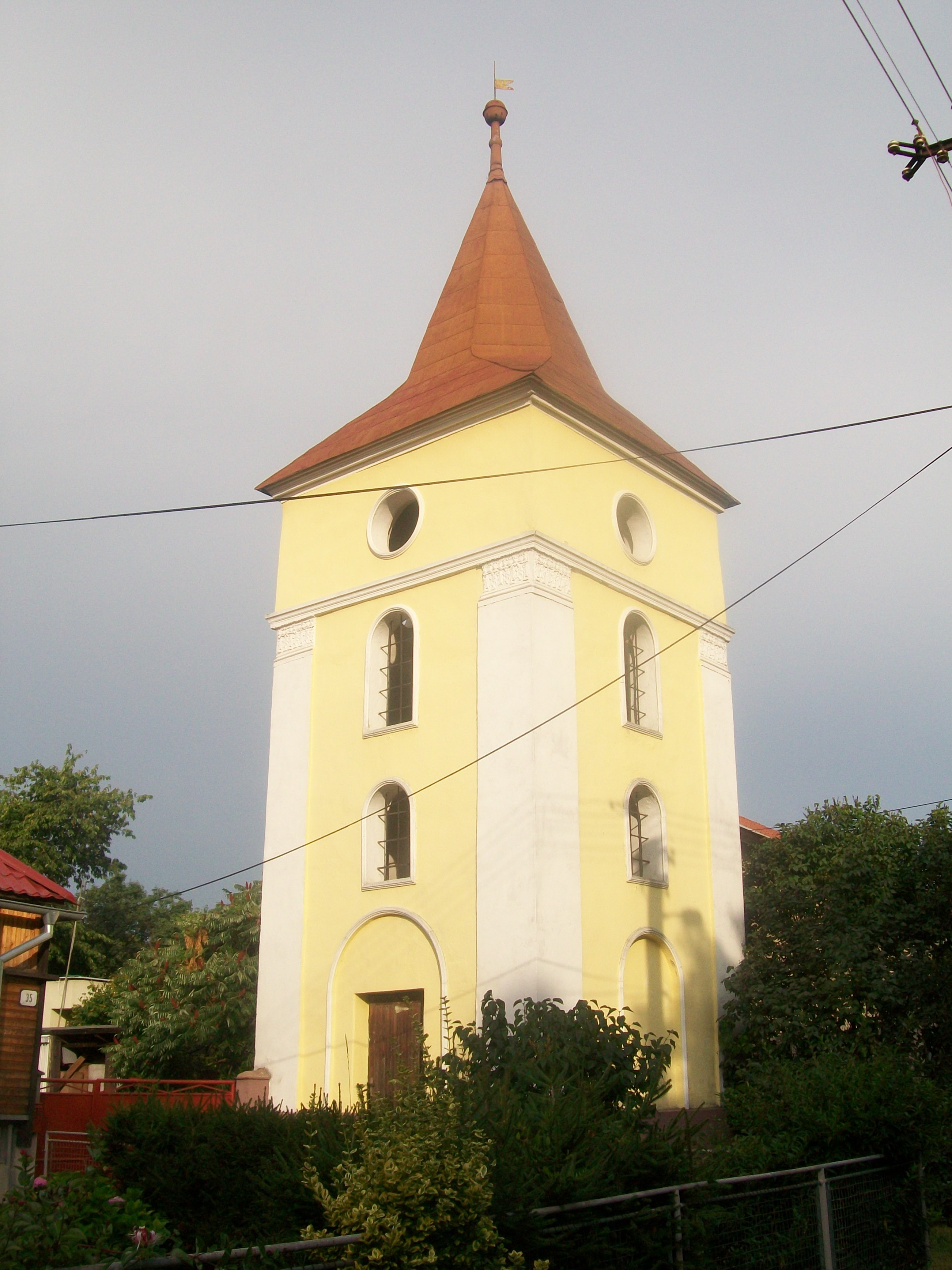 Belfry in the village DobročSlovenčina: Zvonica v obci Dobroč